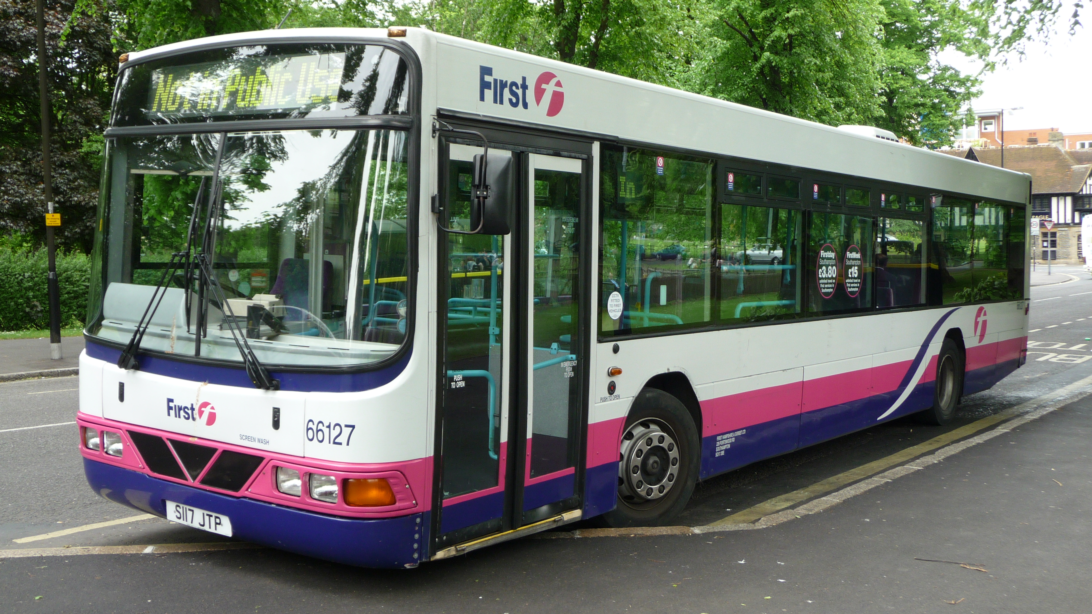 First Hampshire & Dorset 66127 (S117 JTP), a Volvo B10BLE/Wright Renown, in Pound Tree Road, Southampton, parked up out of service.